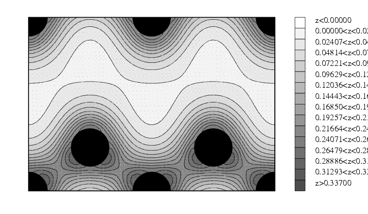 Electronic density map in diamond ([1-10] plan). The black spheres are the carbon atoms.